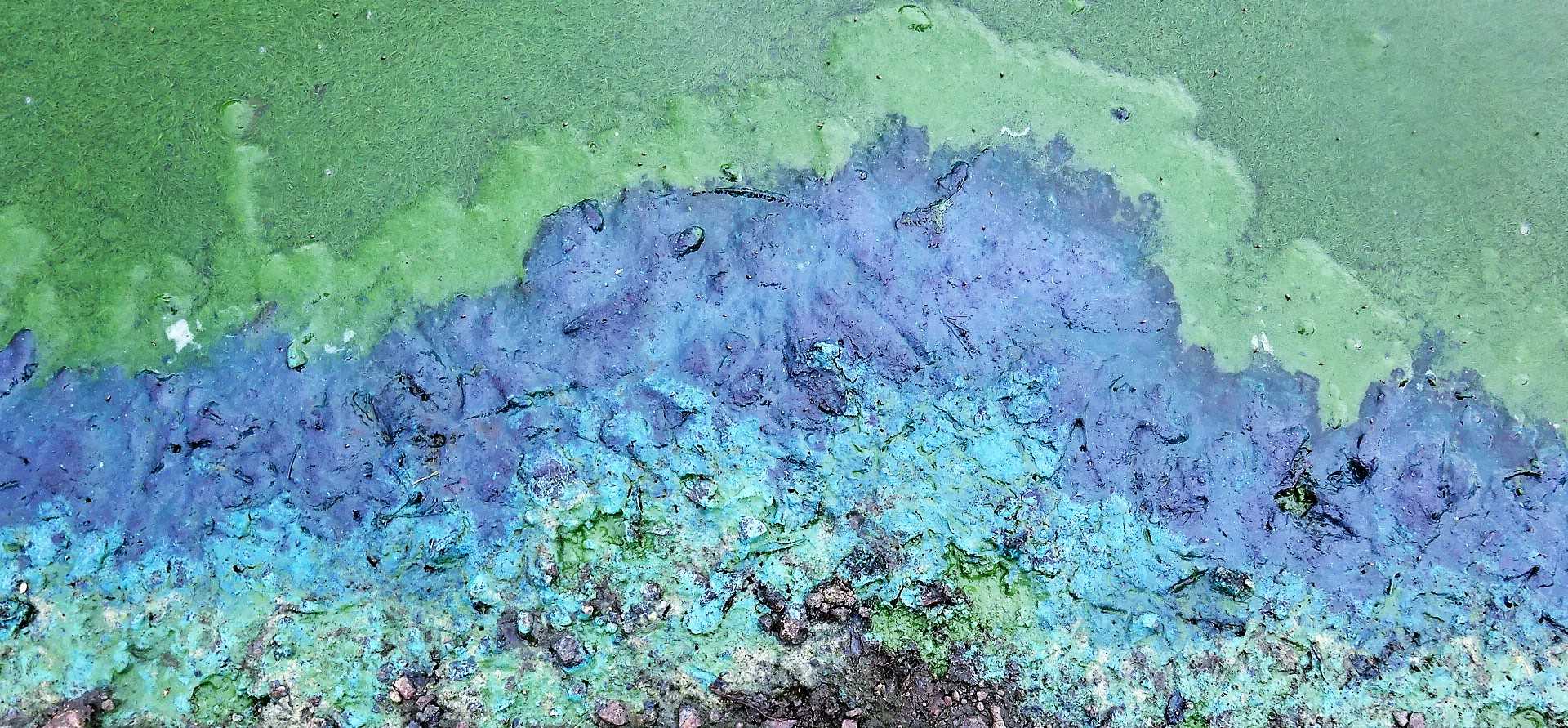 Cyanobacteria in the water and on shoreline, St Margaret's Loch, Holyrood Park, Edinburgh. Commonly called blue-green algae.